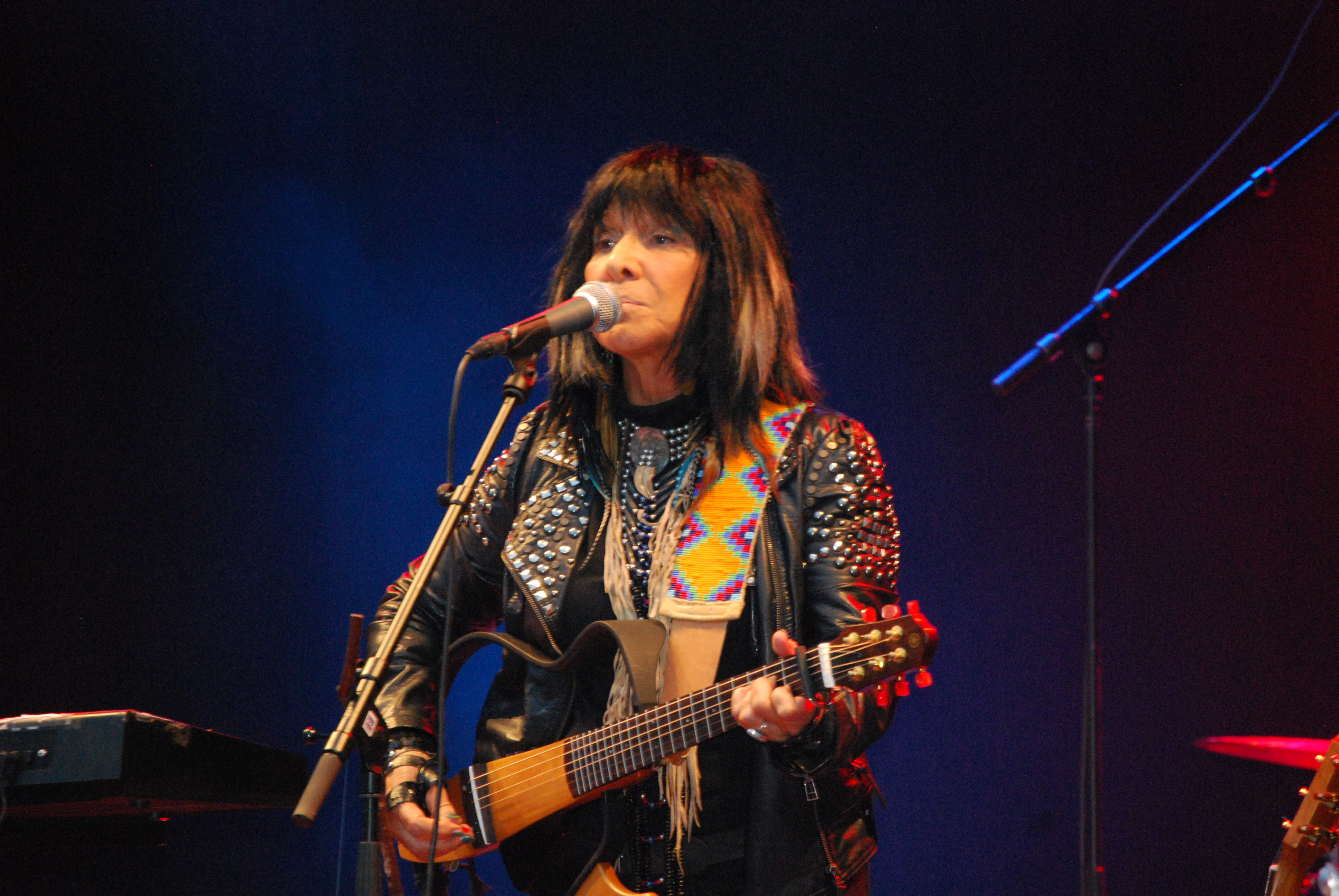 Buffy Sainte-Marie in concert at Wrightegaarden in Langesund, Norway July 2012.